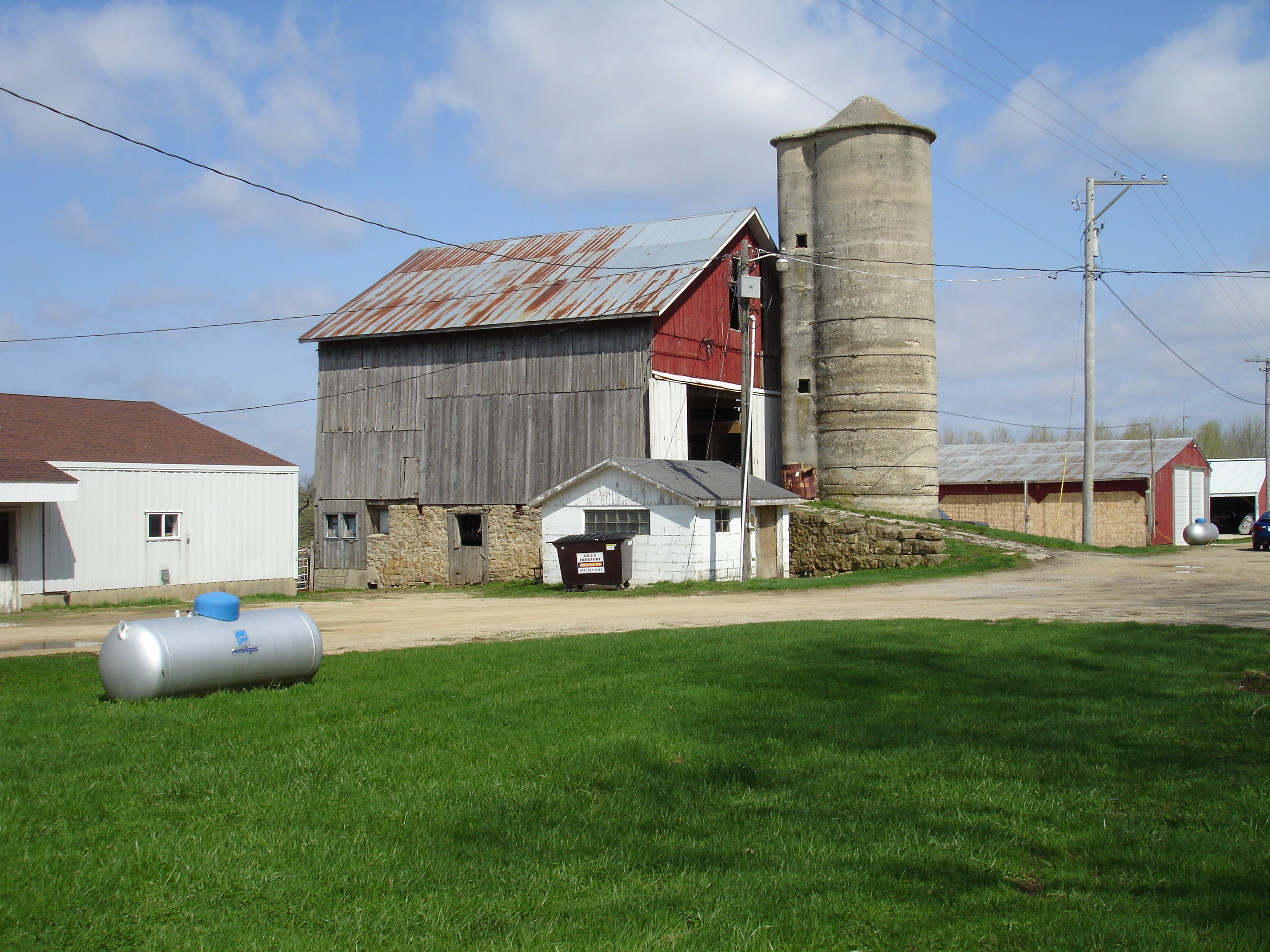 A banked (or bank) barn, north of Stockton, Illinois, USA.